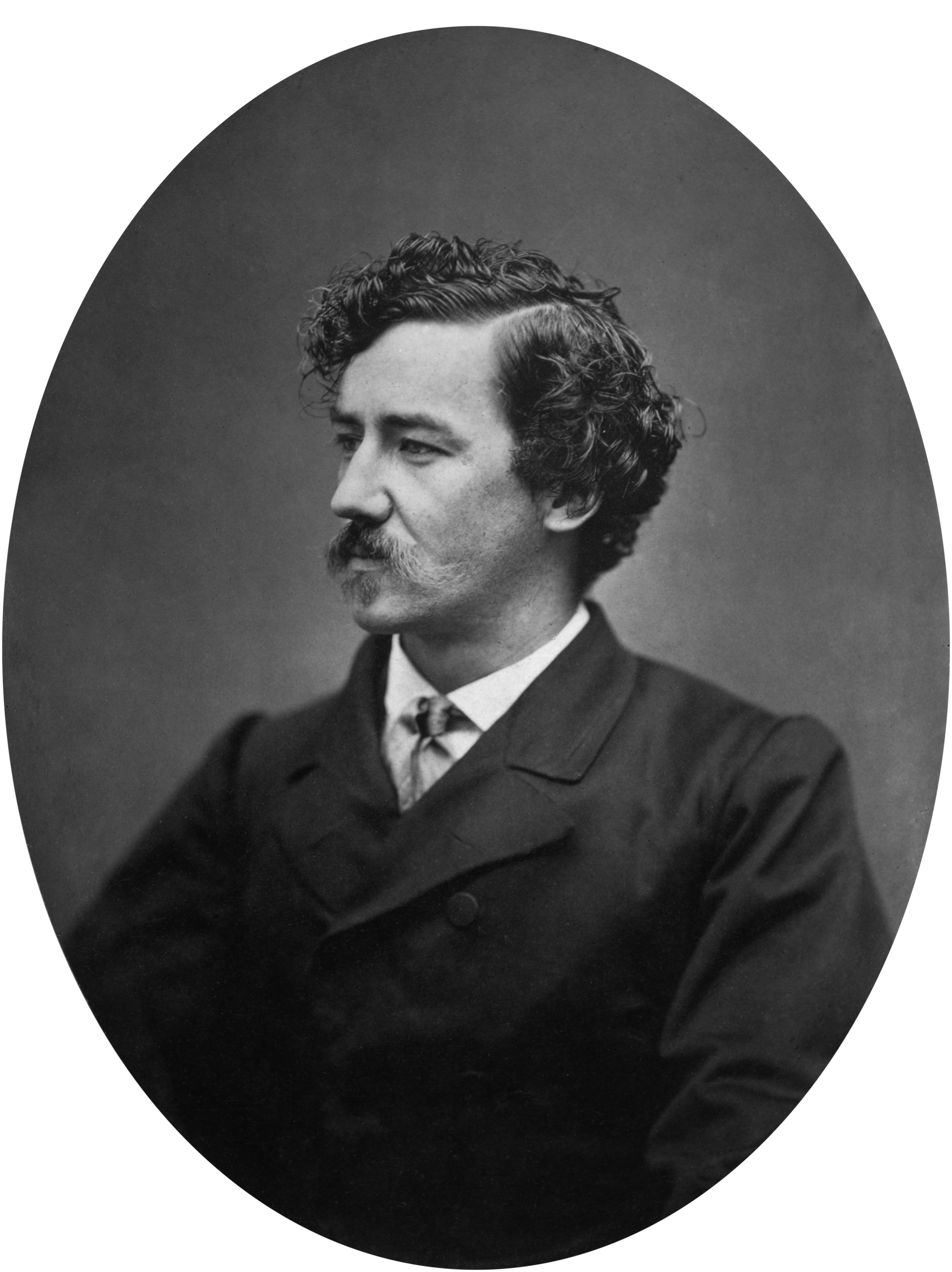 American painter James Abbott McNeill Whistler (1834-1903)